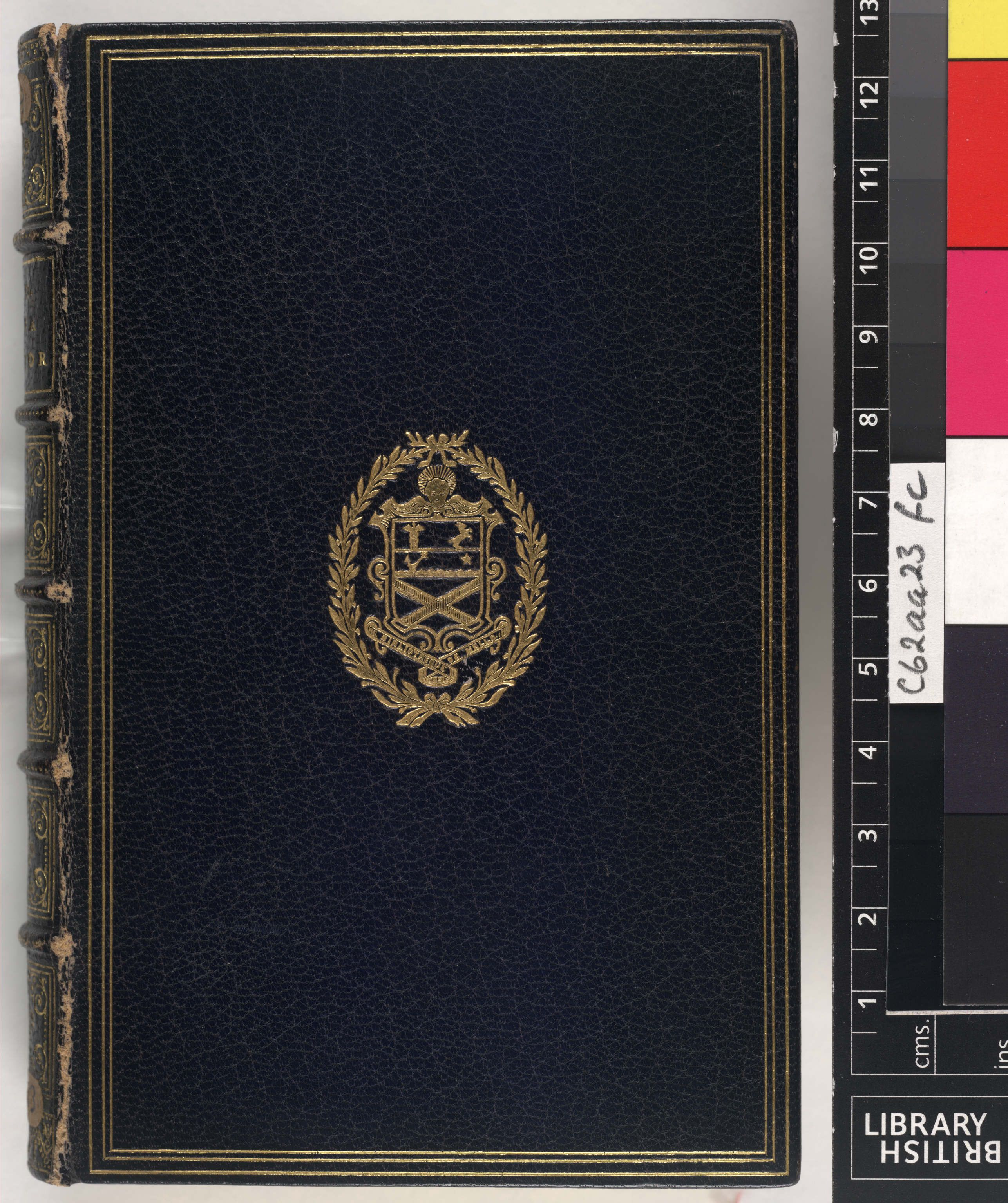 Style: Armorial; Caption: Upper cover; Colour: Brown; Edge: Unspecified